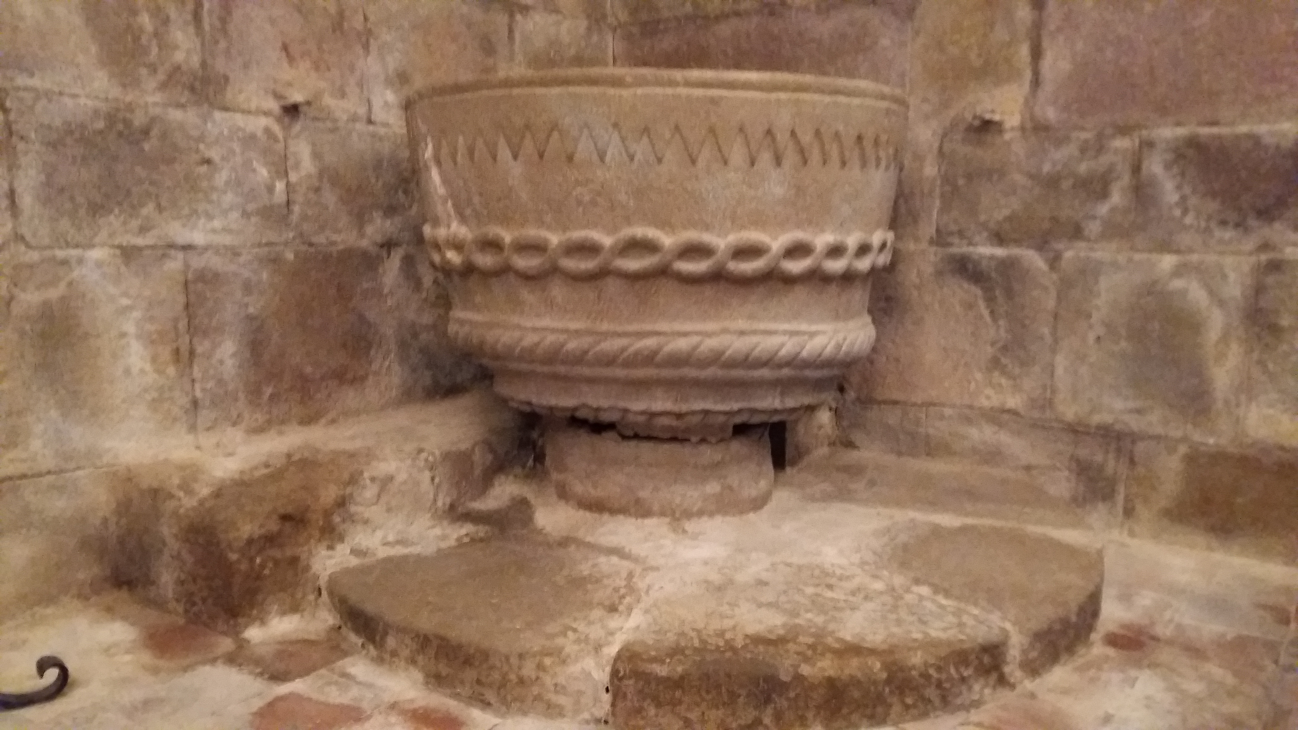 Romanesque Church Sant Salvador de Bianya (Catalonia): Preromanesque baptismal font 8 th. century